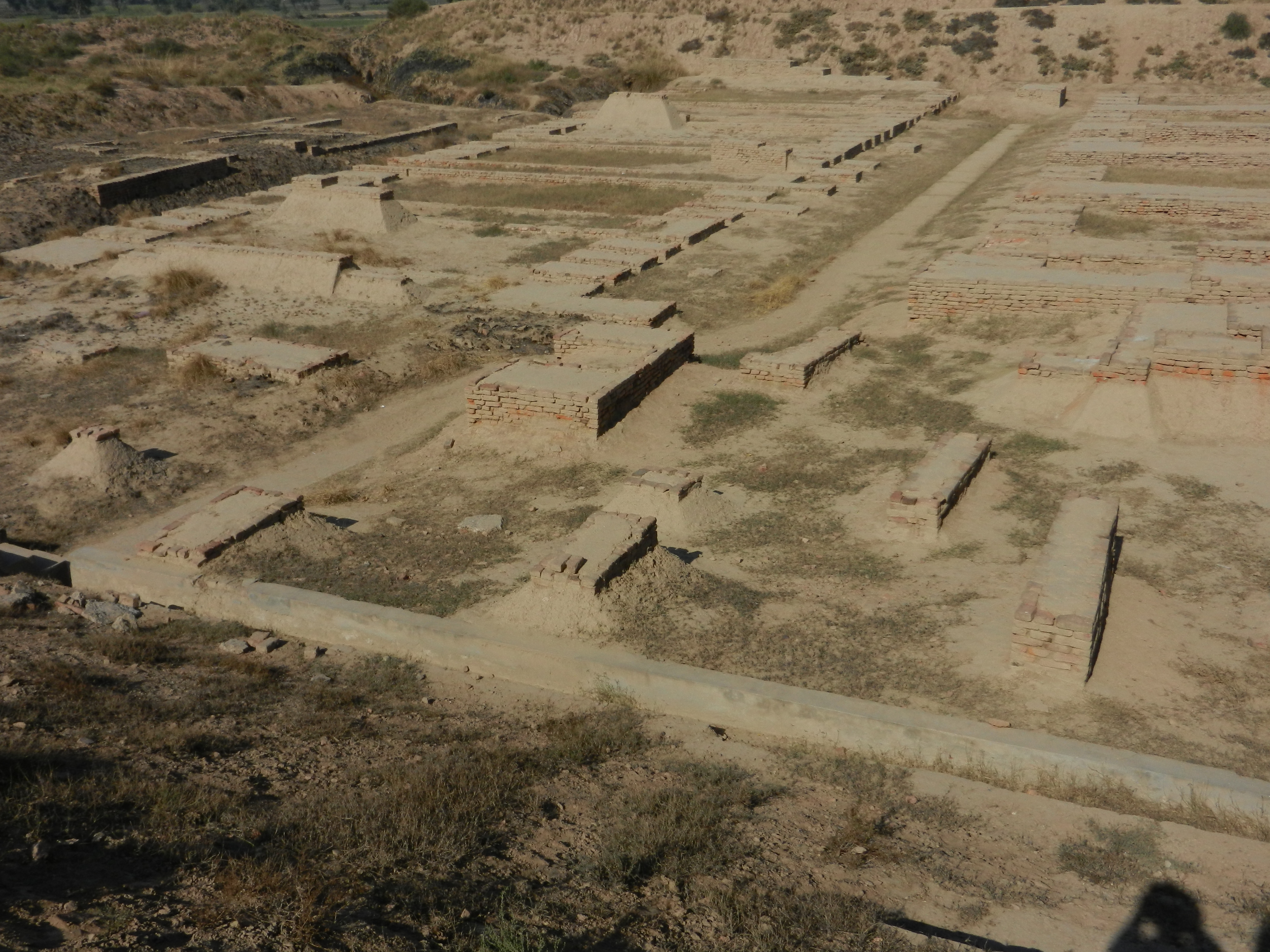 Archaeological Site of Harappa This is a photo of a monument in Pakistan identified as the PB-137